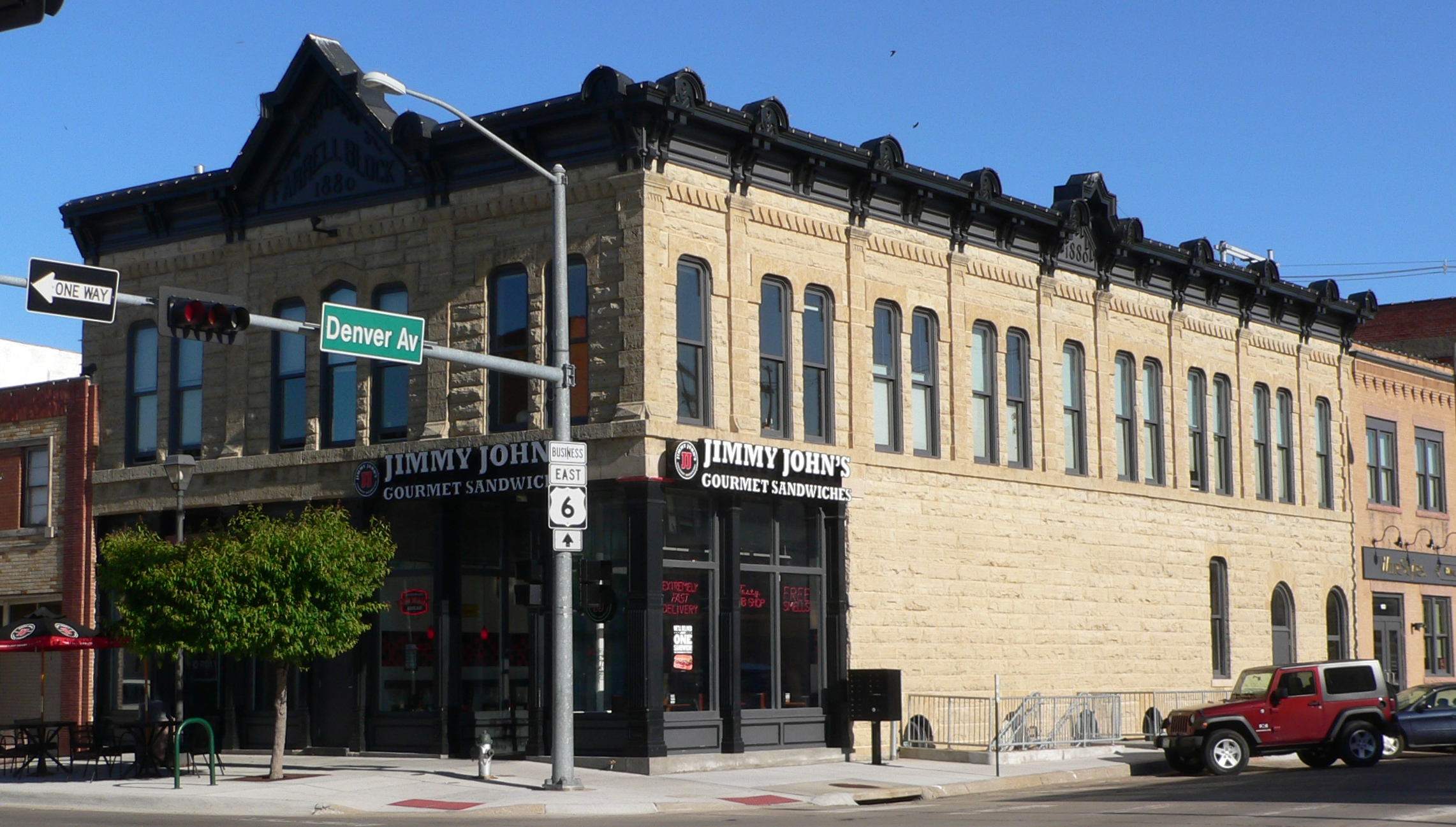 Farrell Block at southeast corner of Second Street and Denver Avenue in Hastings, Nebraska; seen from the northwest. The building was constructed in 1880, and is listed in the National Register of Historic Places.